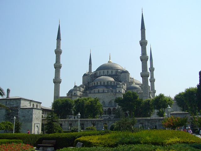 Sultanahmet Camii, Istanbul - イスタンブール・ブルーモスク This is the Sultan Ahmed Mosque and also called the Blue Mosque.